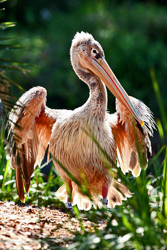 Pink-backed Pelican San Diego Wild Animal Park Canon EOS 5D, Canon EF 400mm f/2.8L IS USM